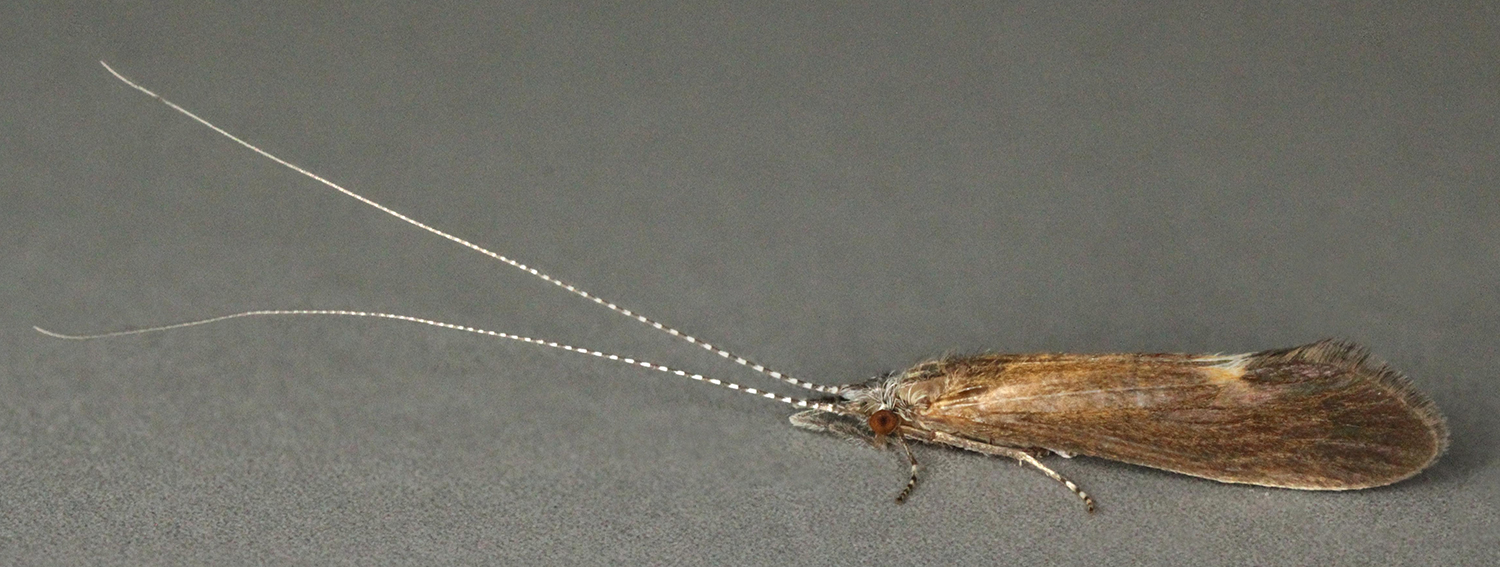 Ceraclea dissimilis female, Bettisfield Moss, North Wales, July 2015